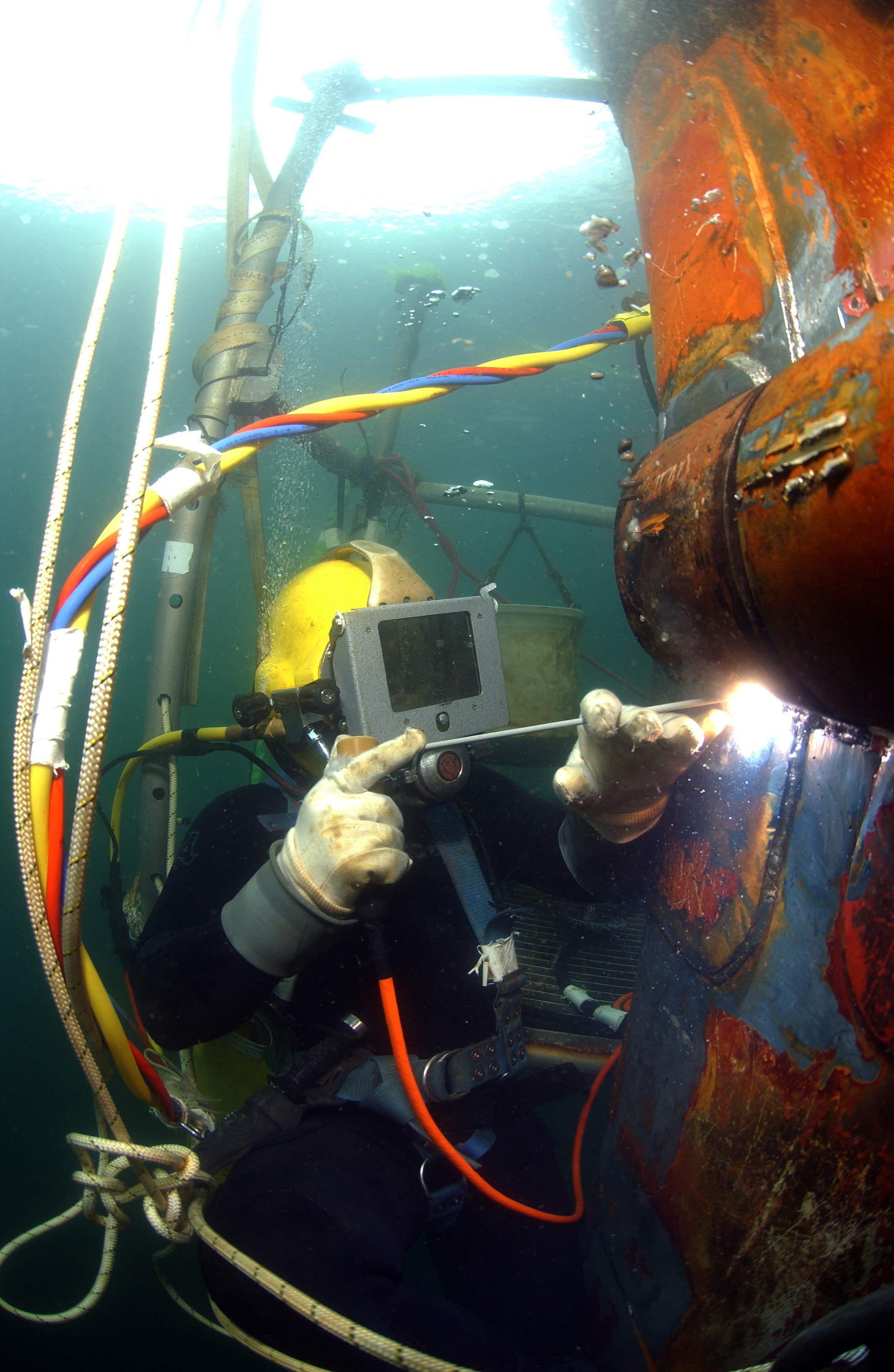 San Diego (Jan. 4, 2007) Navy Diver 1st Class Josh Moore welds a repair patch on the submerged bow of amphibious transport dock USS Ogden (LPD 5) while the ship was in port at Naval Base San Diego. Murray is a member of the Southwest Region Maintenance Center (SWRMC) Dive Locker's underwater welding team. U.S. Navy photo by Mass Communication Specialist Senior Chief Andrew McKaskle